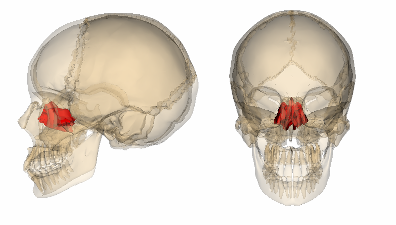 ethmoid from Anatomography[1] maintained by Life Science Databases(LSDB).